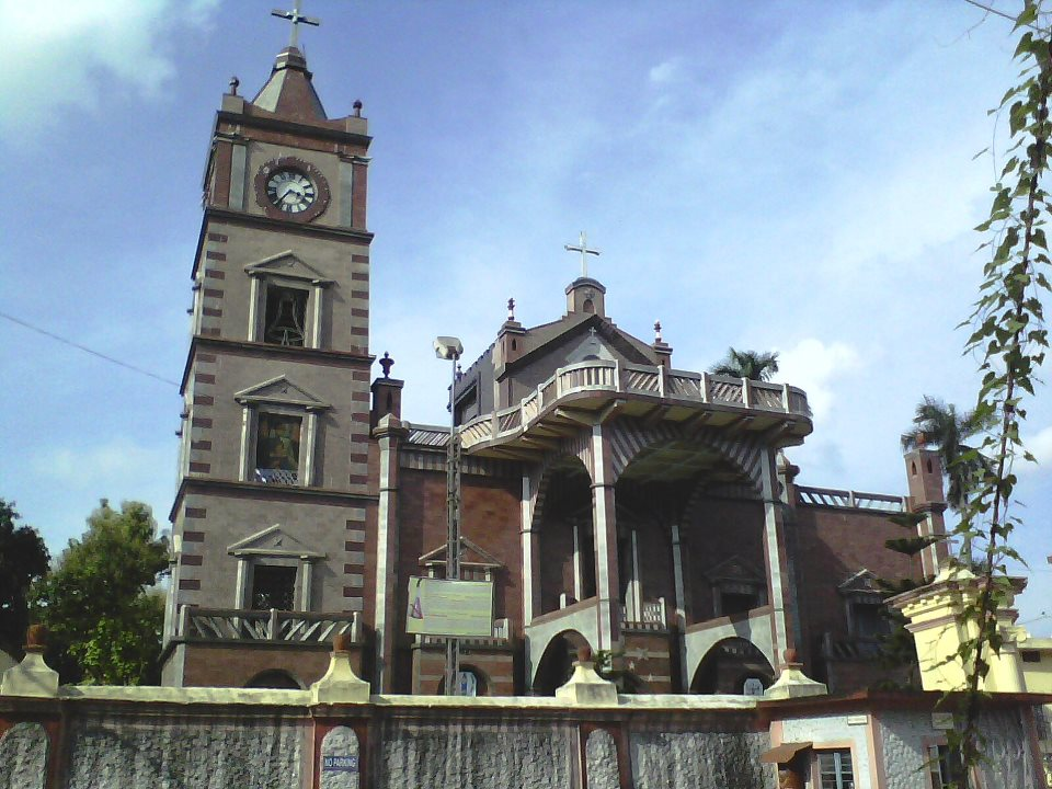 Bandel Basilica ( Bandel Church)